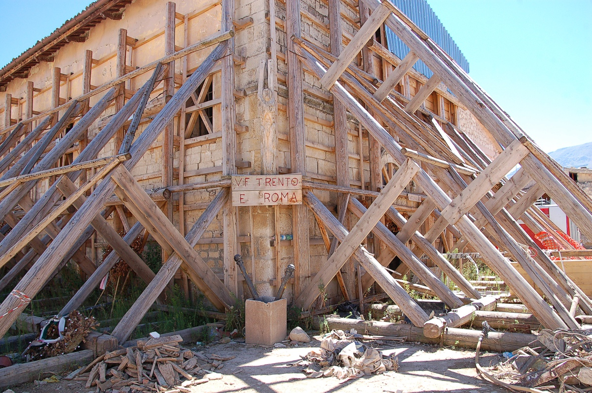 Onna (L’Aquila) 2010